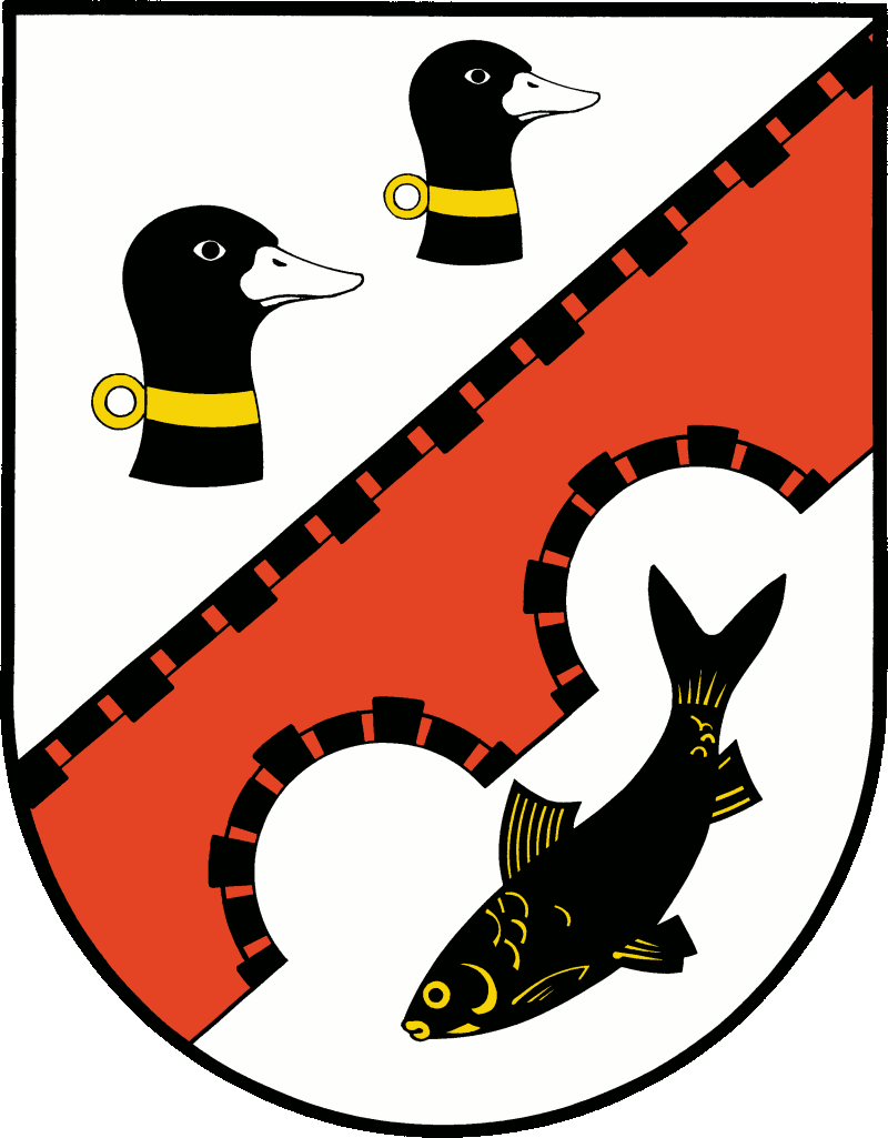 Coat of arms of Premnitz